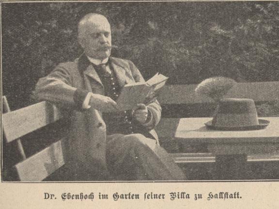 Alfred Ebenhoch (1855–1912), Catholic politician of the Christian Social Party, Governor of Upper Austria (1895–1907), Minister of Agriculture (1907–1908)Caption: Dr. Ebenhoch in the garden of his villa in Hallstatt.